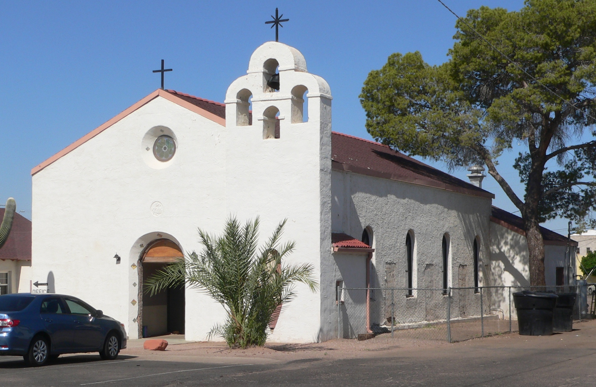 St. Anthony's Church in Casa Grande, Arizona; seen from the east.